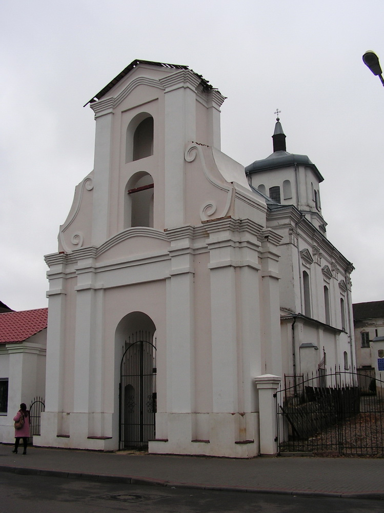 Catholic church of the Immaculate Conception of Blessed Virgin Mary and the convent (Slonim, Belarus).